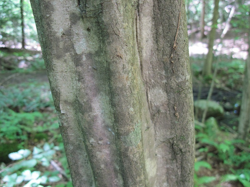 The bark of an American Hornbeam (Carpinus caroliniana) growing in Hollis, New Hampshire.